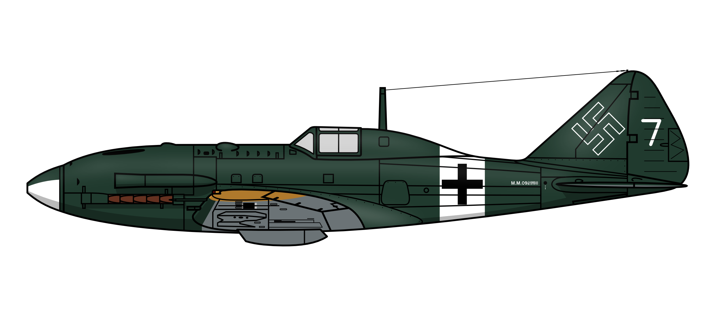 Profile of an Italian WWII Reggiane Re.2005 fighter. Registry number unknown. Luftdienst Kommando Italien, Maniago, Italy, February 1944.